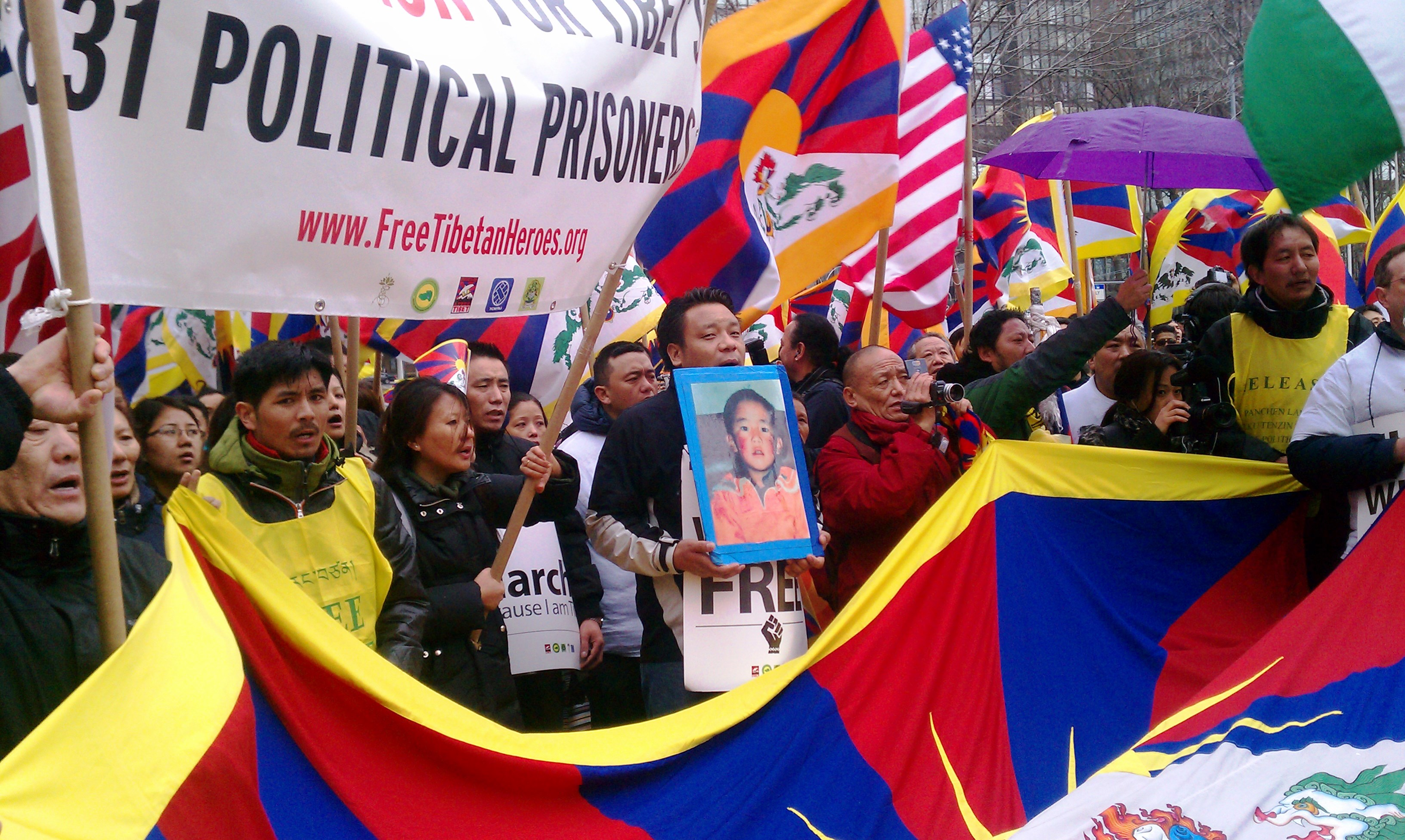 born on 1989-4-24, Tibetan Panchen Lama Gedhun Choekyi Nyima is the youngest political prisoner in the world中文（台灣）: 第十一世班禪更登確吉尼瑪是世界上年紀最小的政治犯